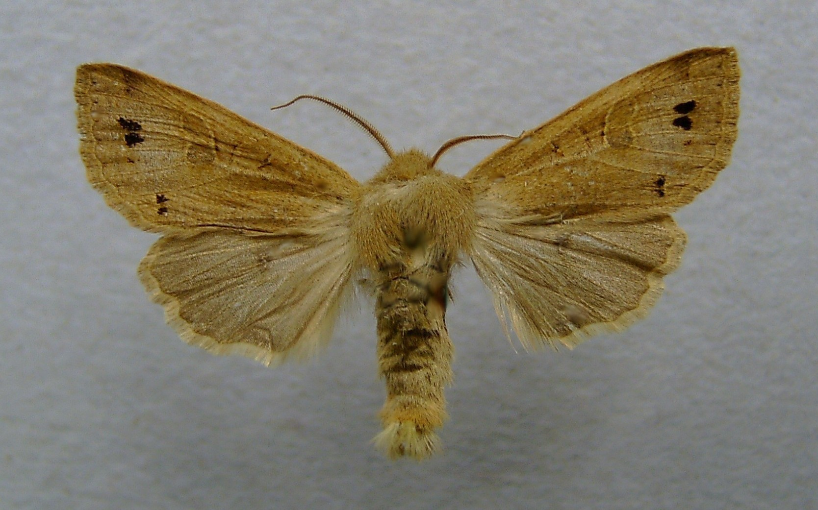 Anorthoa munda